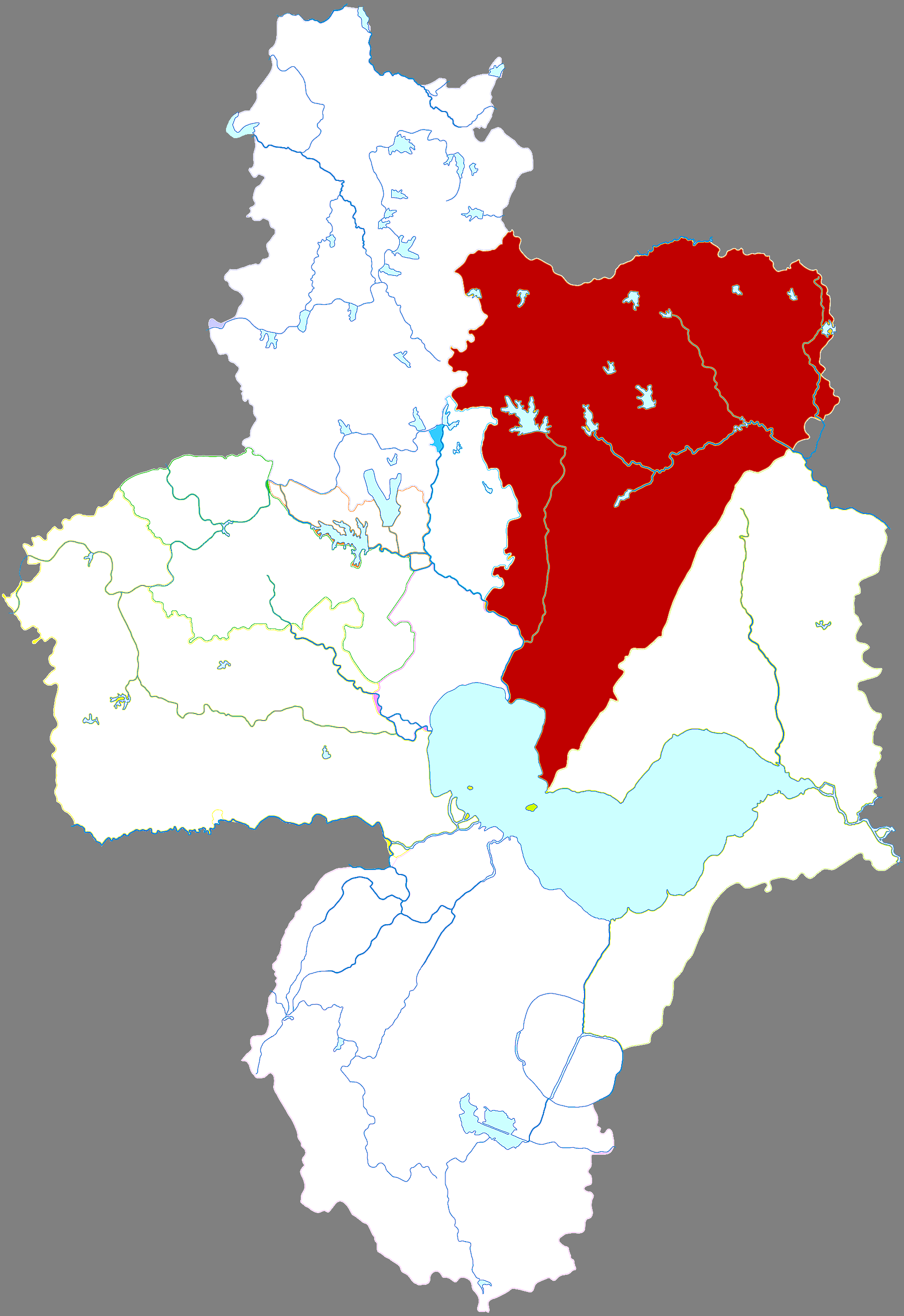 Location of Feidong county in Hefei city, China